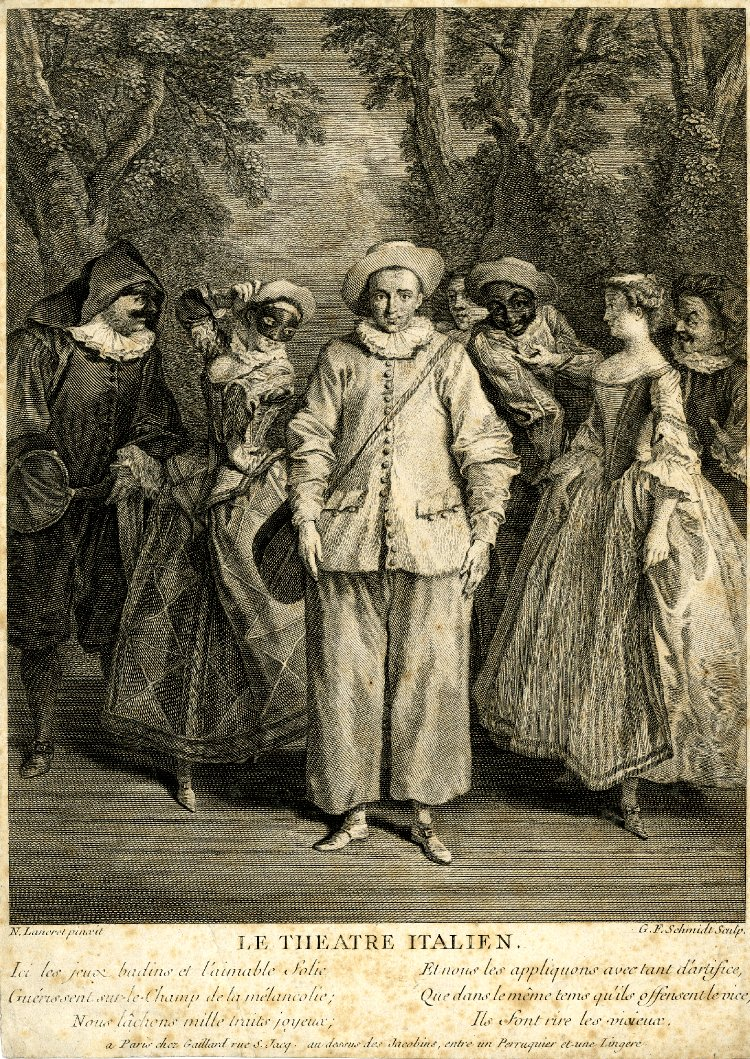 Whole length view of six figures from the commedia dell'arte in a landscape. After: Nicolas Lancret. Published by: Nicolas de Larmessin III. Print made by: Georg Friedrich Schmidt